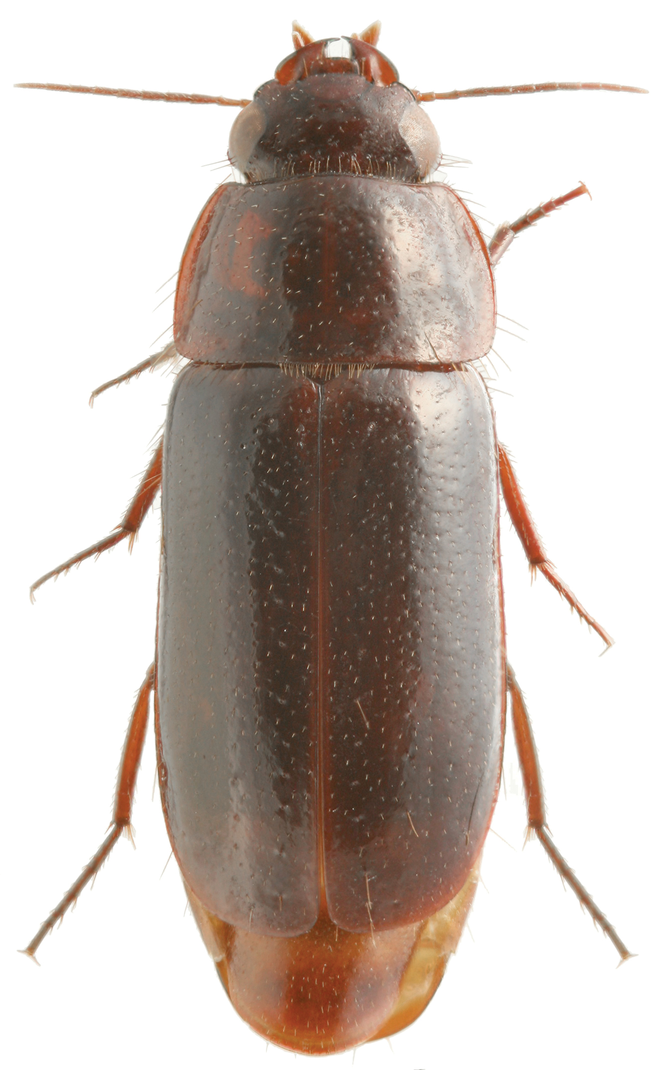 Pseudomorpha sp. Members of Pseudomorpha are among the most unusual North American carabids. The body shape of the adults is very characteristic. In addition, contrary to other Nearctic carabids that lay eggs, they are ovoviviparous. The females carry hatched larvae in their bursa copulatrix, vagina, and lateral oviducts. Such behavior probably greatly reduces egg mortality.